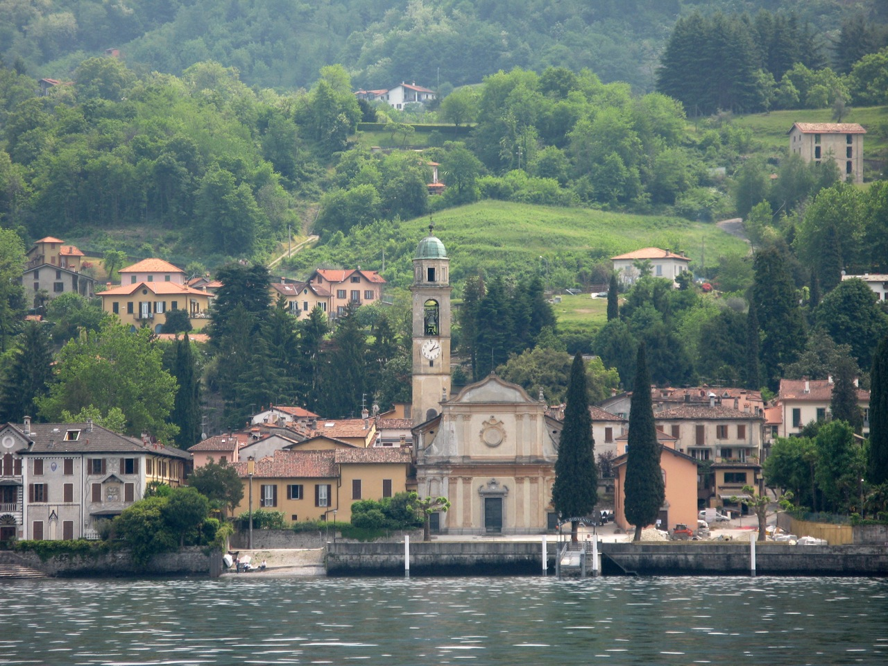 photo of San Giovanni of Bellagio taken by a boat